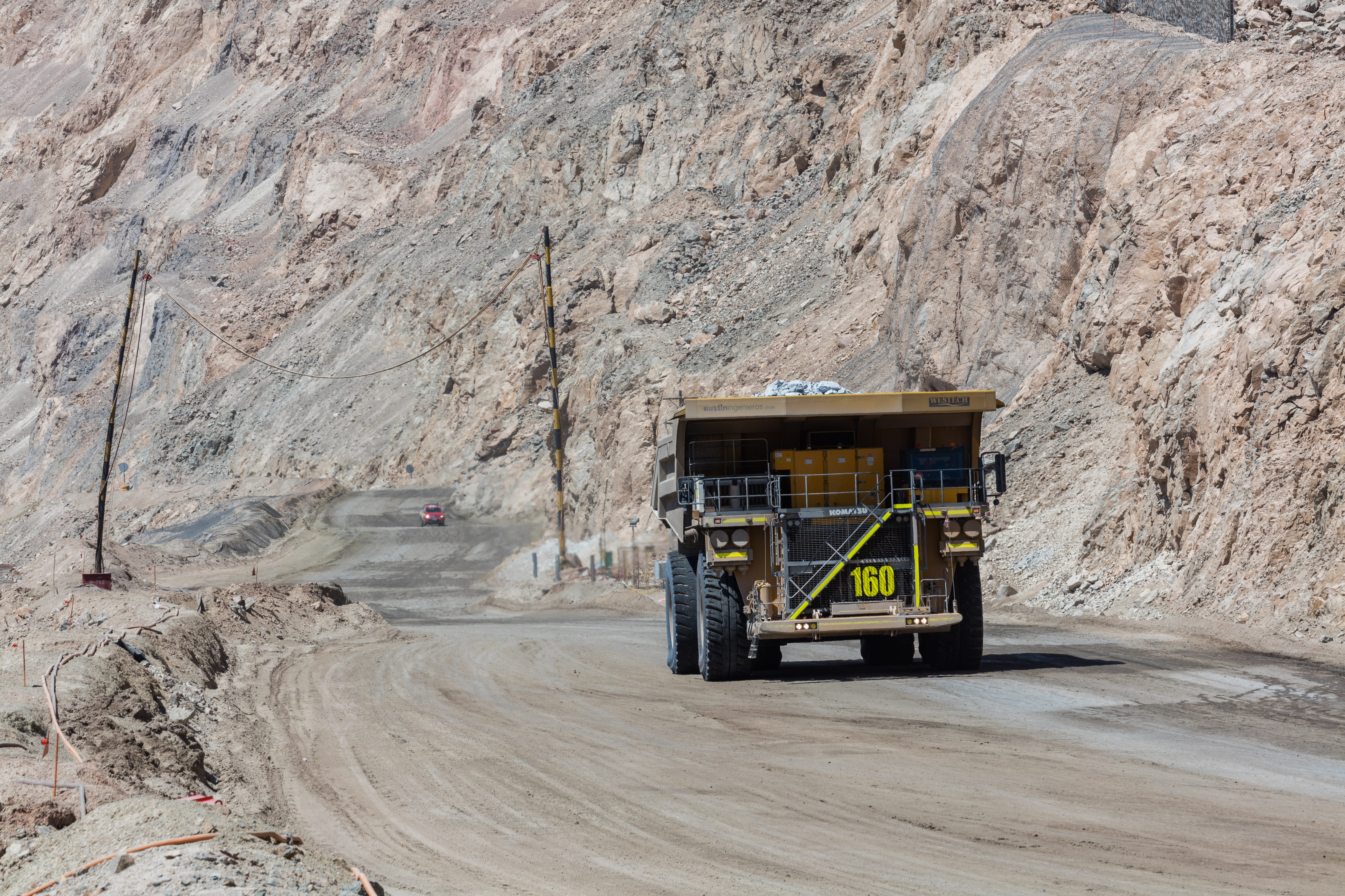 Komatsu haul truck, Chuquicamata Mine, Calama, Chile